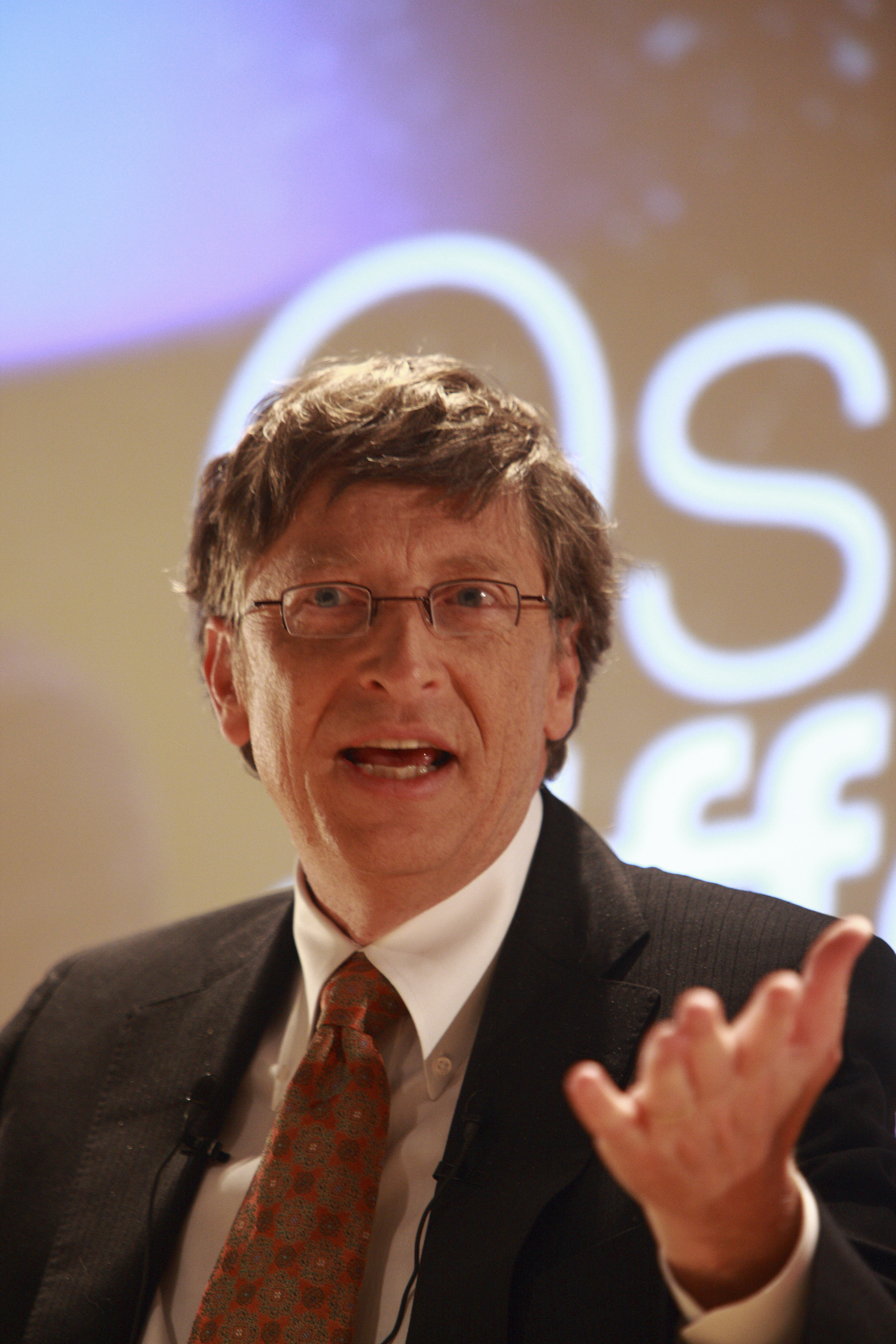 Bill Gates at Medef